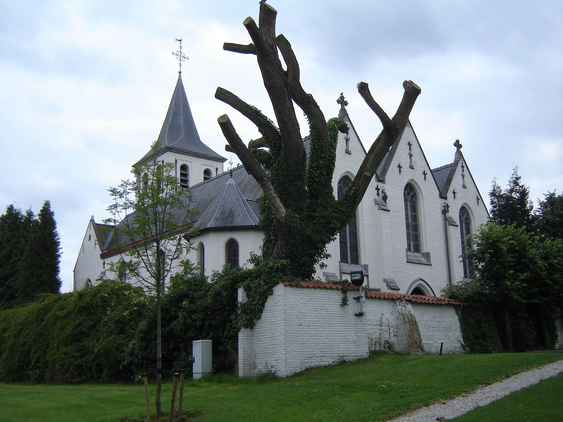 Church of Saint Martin in Sint-Martens-Latem. Sint-Martens-Latem, East Flanders, Belgium.